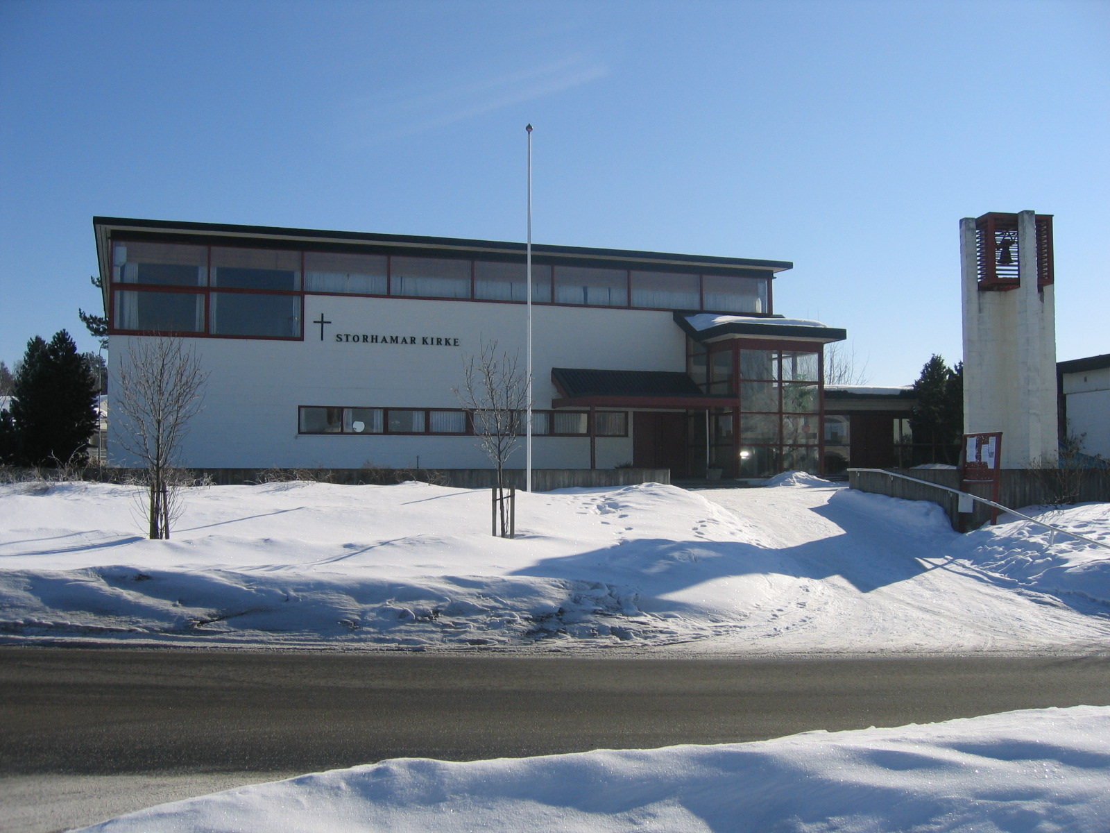 Storhamar Church, Hamar, Hedmark, Norway.